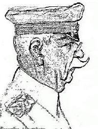 Caricature of Richard Karl von Tessmar (1853 – 1928), German military commander in Luxembourg during World War I.